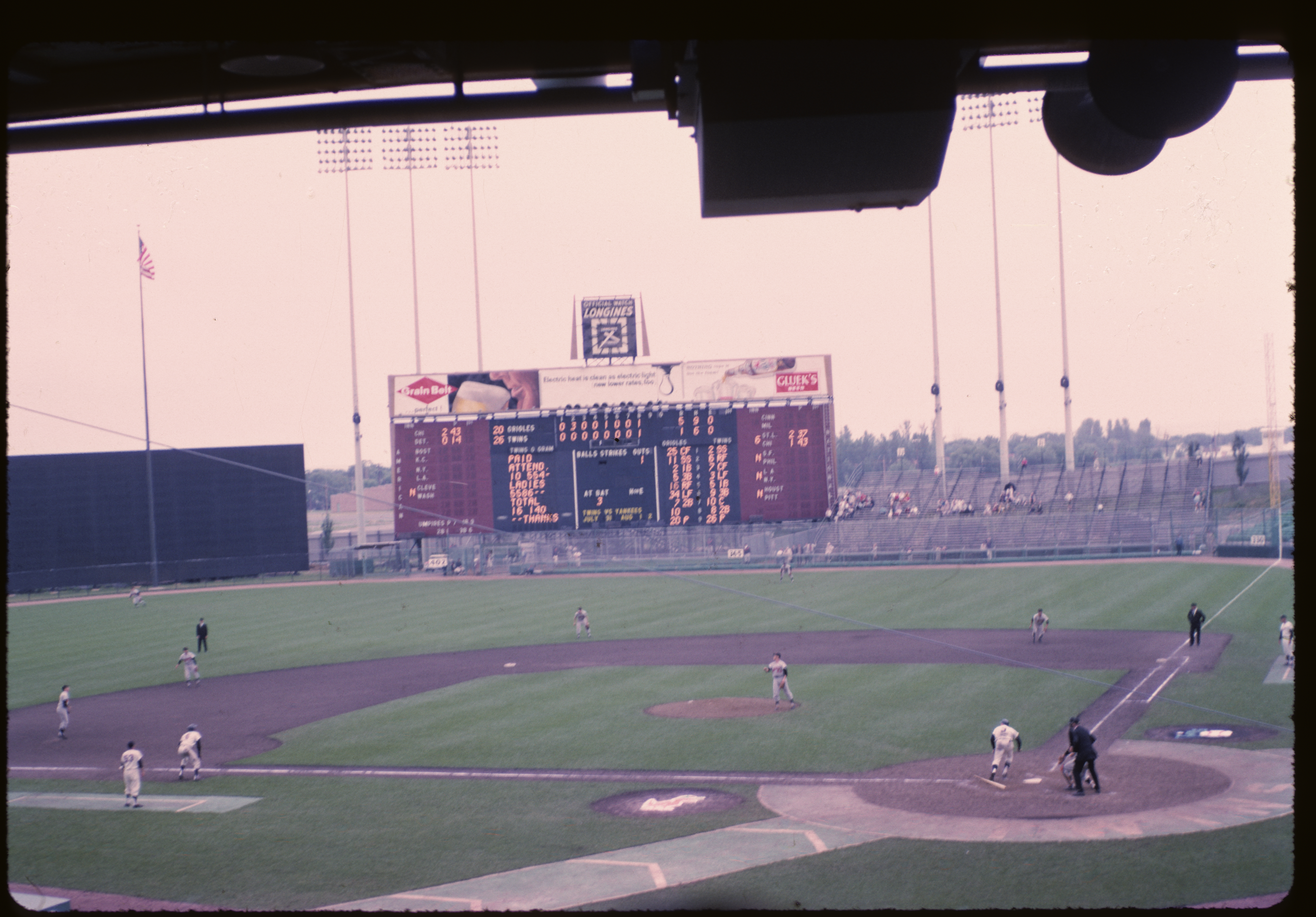 "This photo was taken by my late father Martin J Walsh Jr. From a Kodachrome Slide" Metropolitan Stadium in 1965 during a Twins - Orioles game.